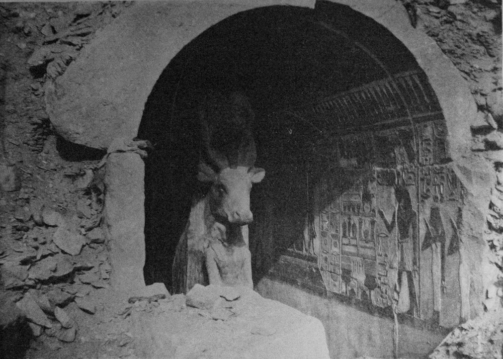 hathor chapel at the temple of Thutmosis III. in Deir el-Bahari, photo from excavation by Henry Edouard Naville (1907), painted sandstone, H. 225cm, with statue of Hathor as divine cow, today exposed in the Egyptian Museum in Cairo (Ground Floor, Room 12), JE 38574-5